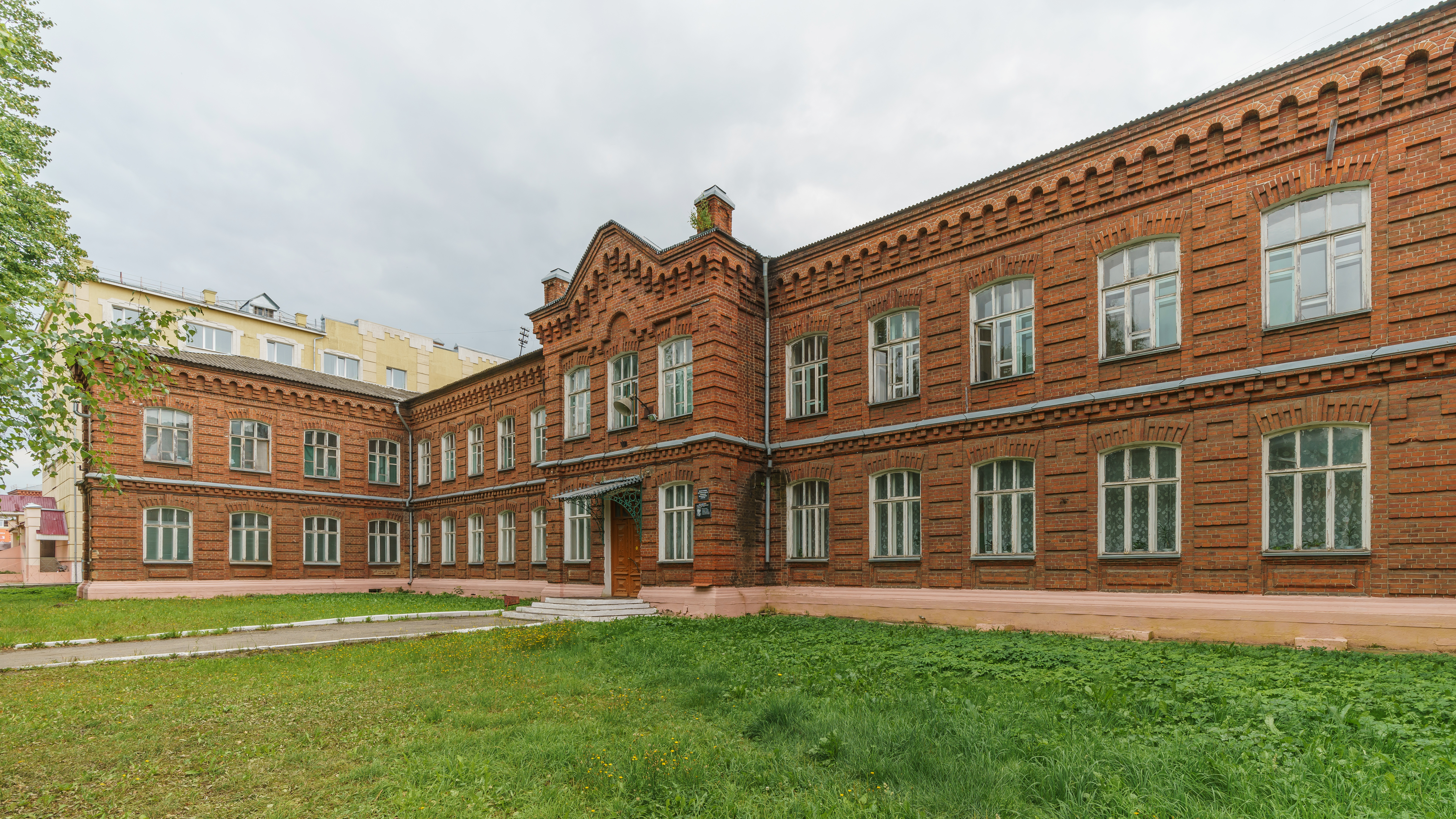 Historical hospital building in Rodniki, Ivanovo Oblast, Russia.